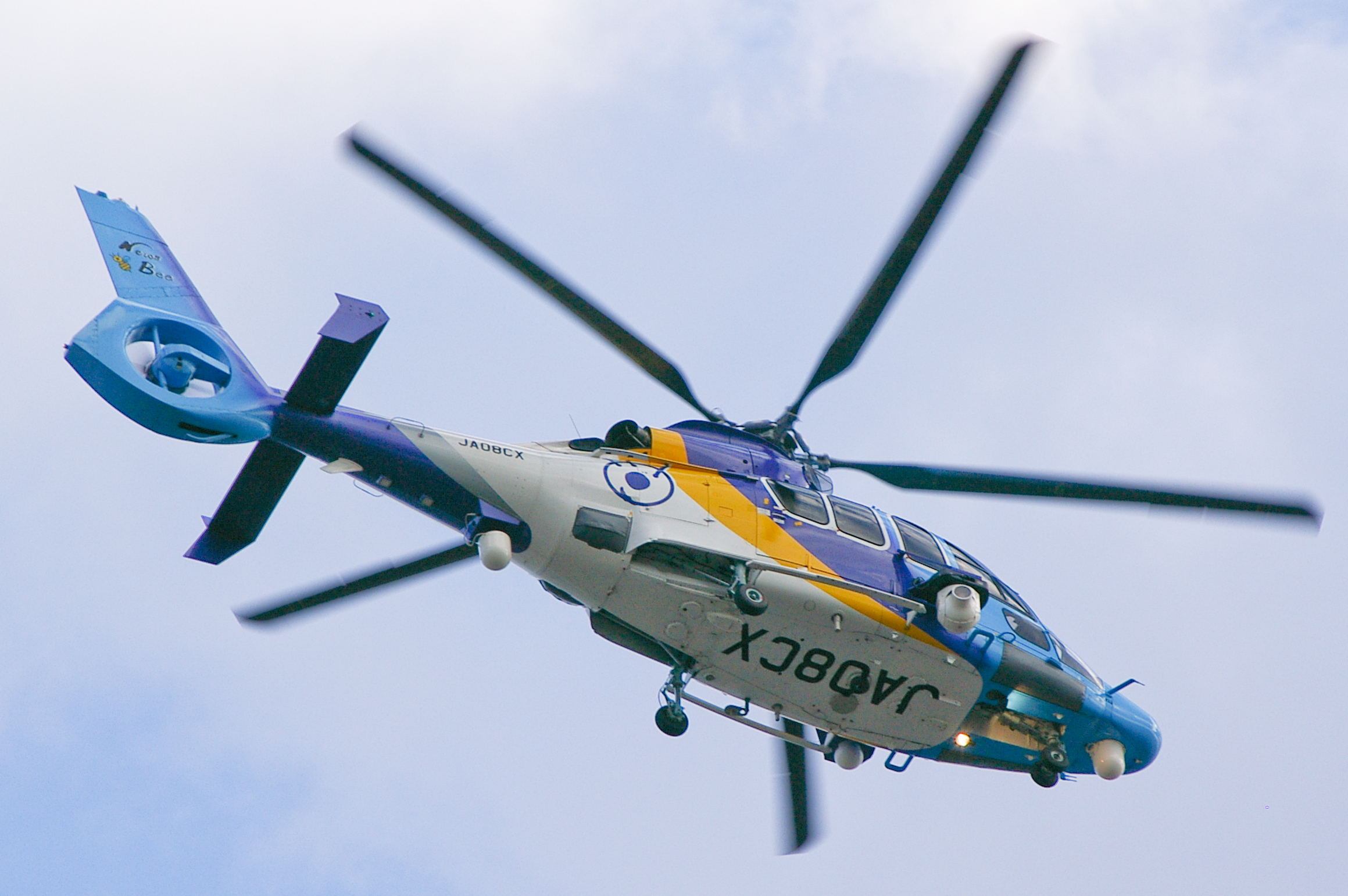 Photograph of the bottom of Toho Air Service's Eurocopter EC155B (JA08CX, News Bee), chartered by Fuji Television for news gathering, landing at Yao Airport, taken at Osaka Prefectural Central Wide-area Disaster Prevention Base in Yao, Osaka Prefecture, Japan.